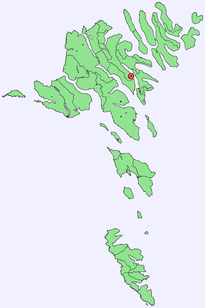 Position of Skáli in the Faroe Islands Graphics: Arne List